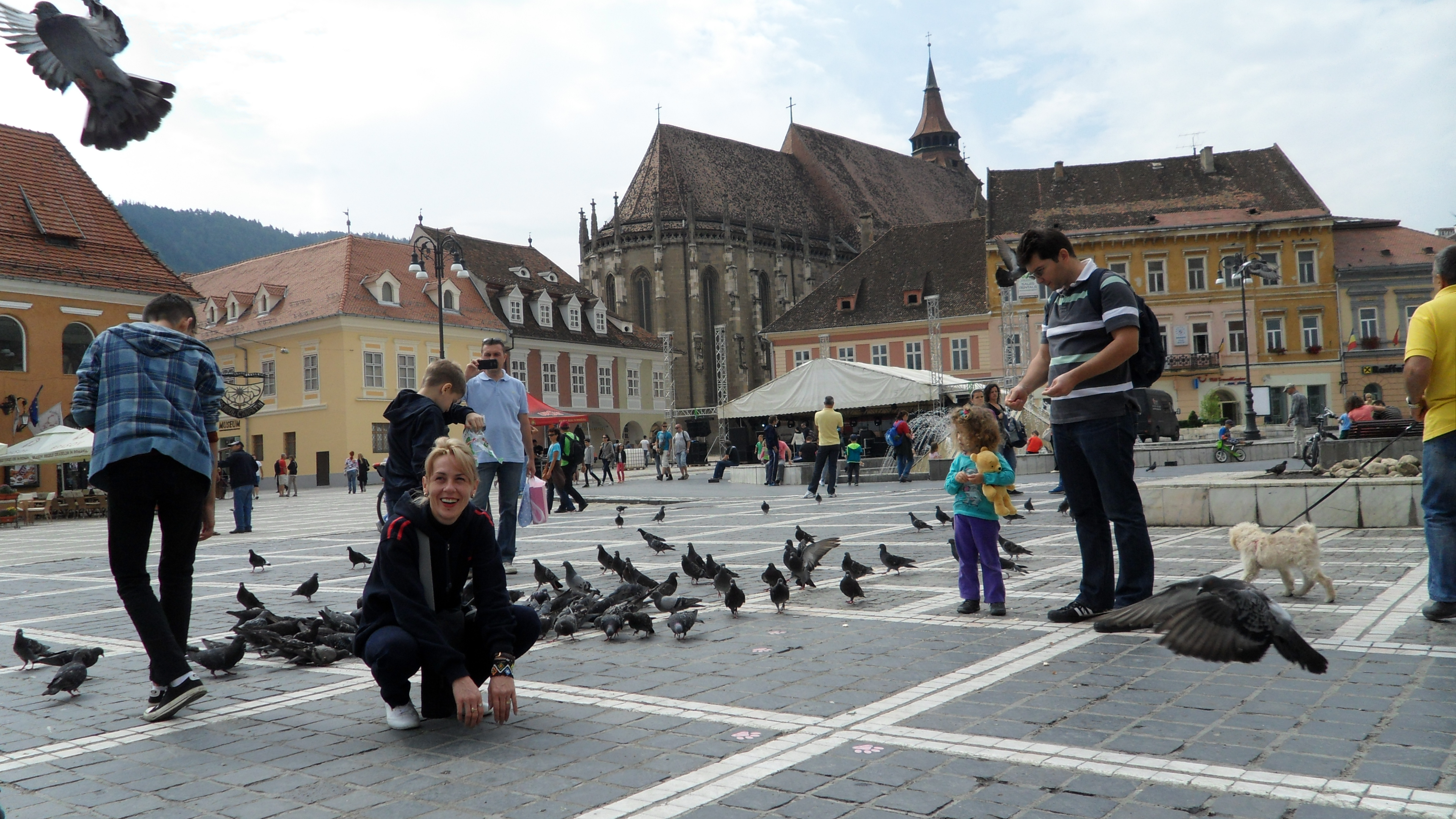 The Black Church seen from the Council Square